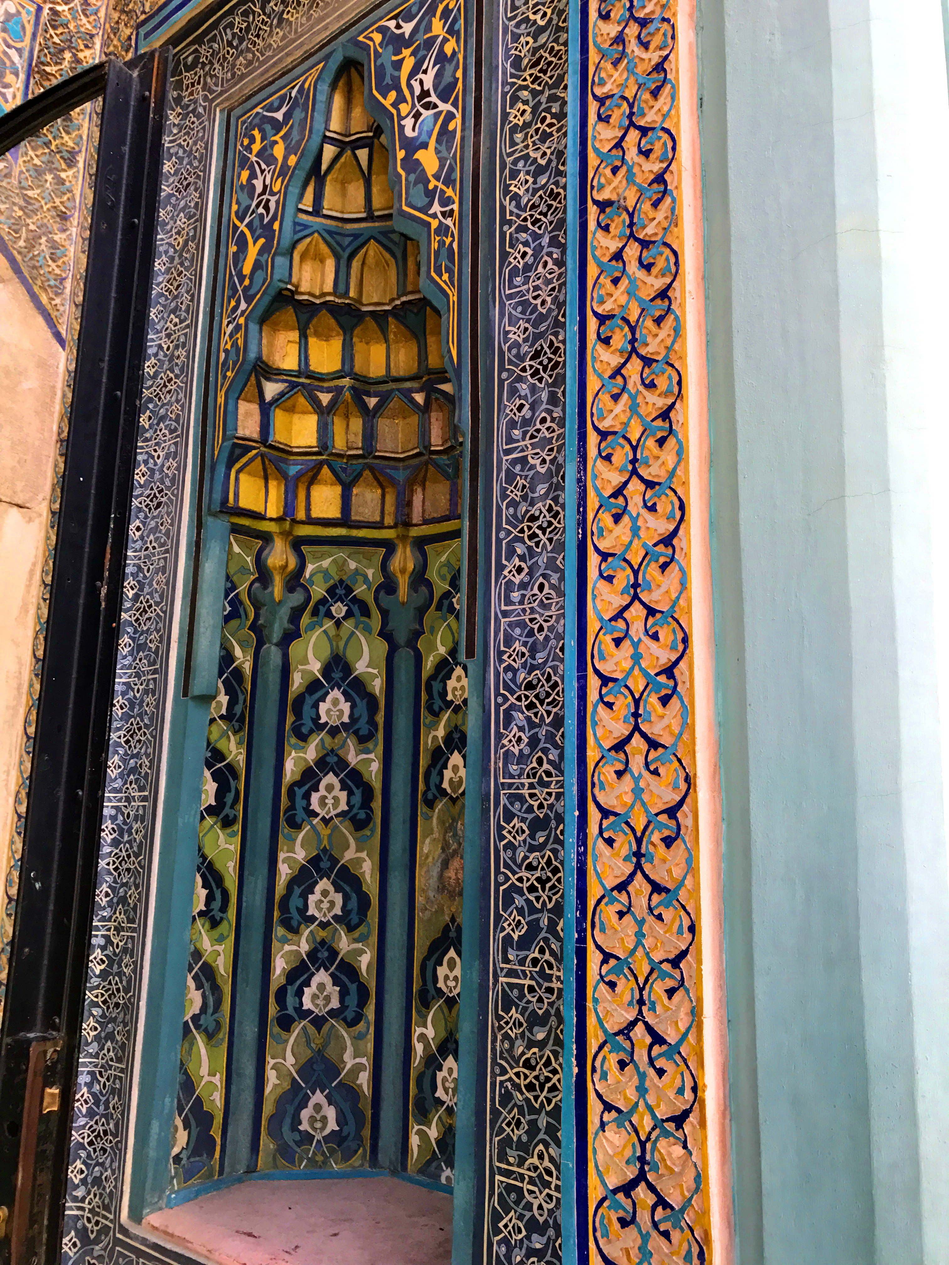 The Green Tomb (Yeşil Türbe) is a mausoleum of the fifth Ottoman Sultan, Mehmed I, in Bursa, Turkey. It was built by Mehmed's son and successor Murad II following the death of the sovereign in 1421. The architect, Hacı Ivaz Pasha designed the tomb and the Yeşil Mosque opposite to it